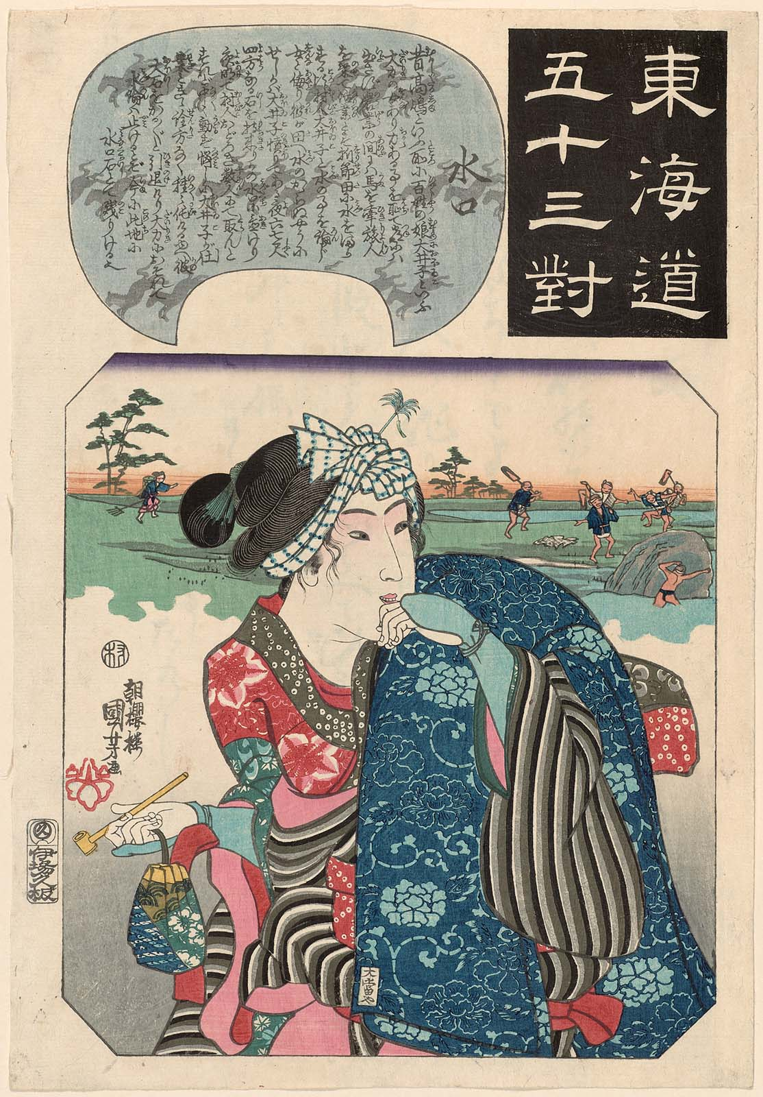 "The 53 stations of the Tōkaidō in pairs" (or "53 Parallels for the Tōkaidō Road"), Minakuchi. The strong woman Ōiko who has dammed a river to irrigate fields. The rock which she moved is left as Minakuchi Ishi.